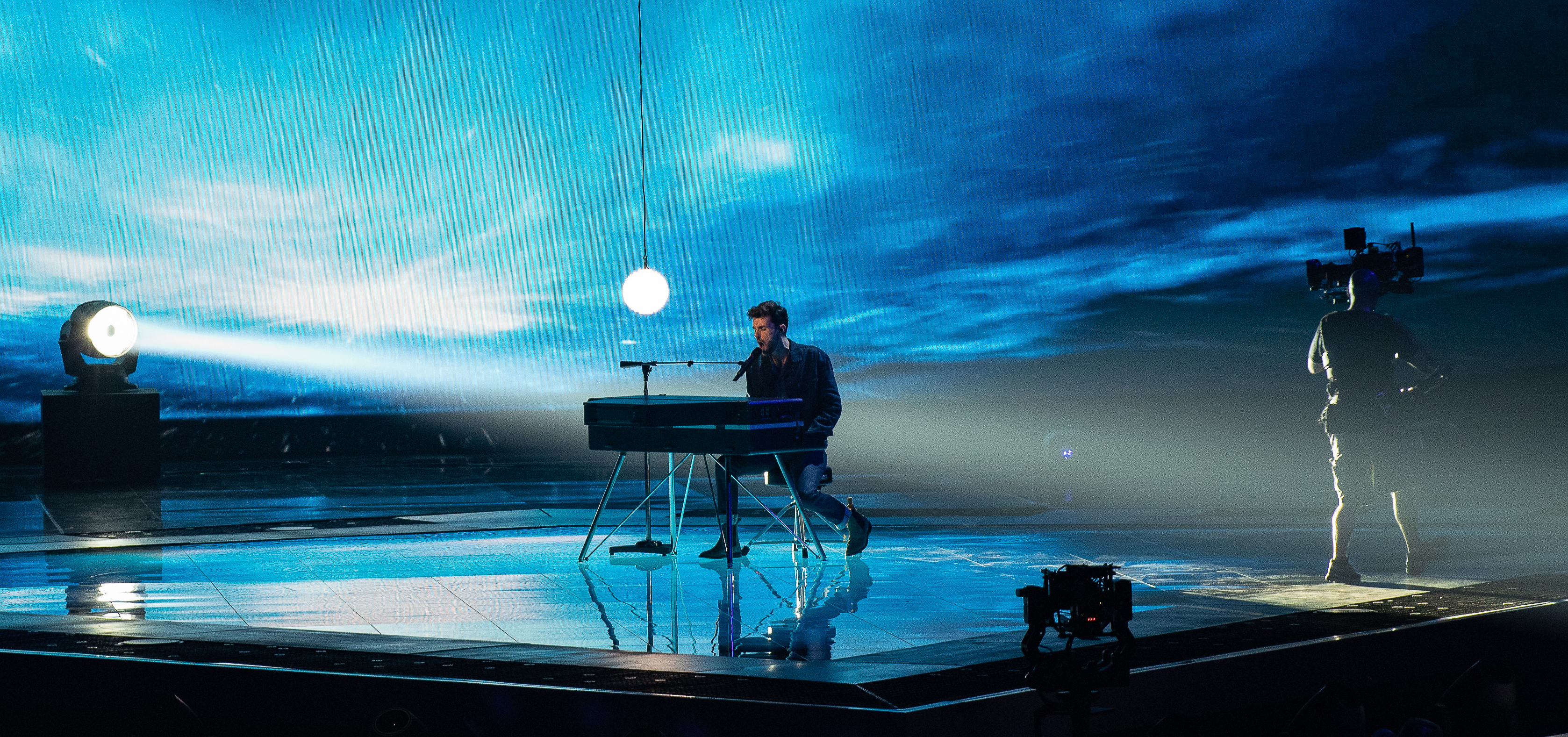 At the 2019 Eurovision Song Contest Semi-final 2 dress rehearsal